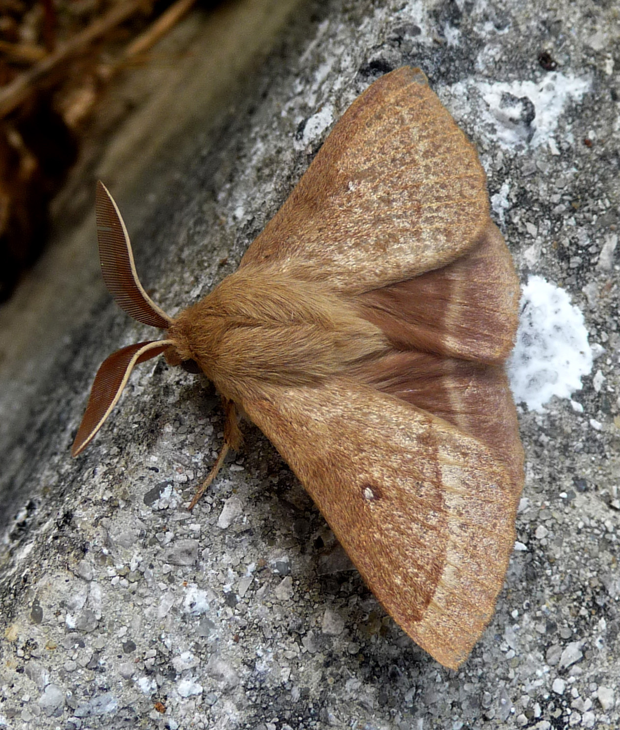 Hugely feathered antennae